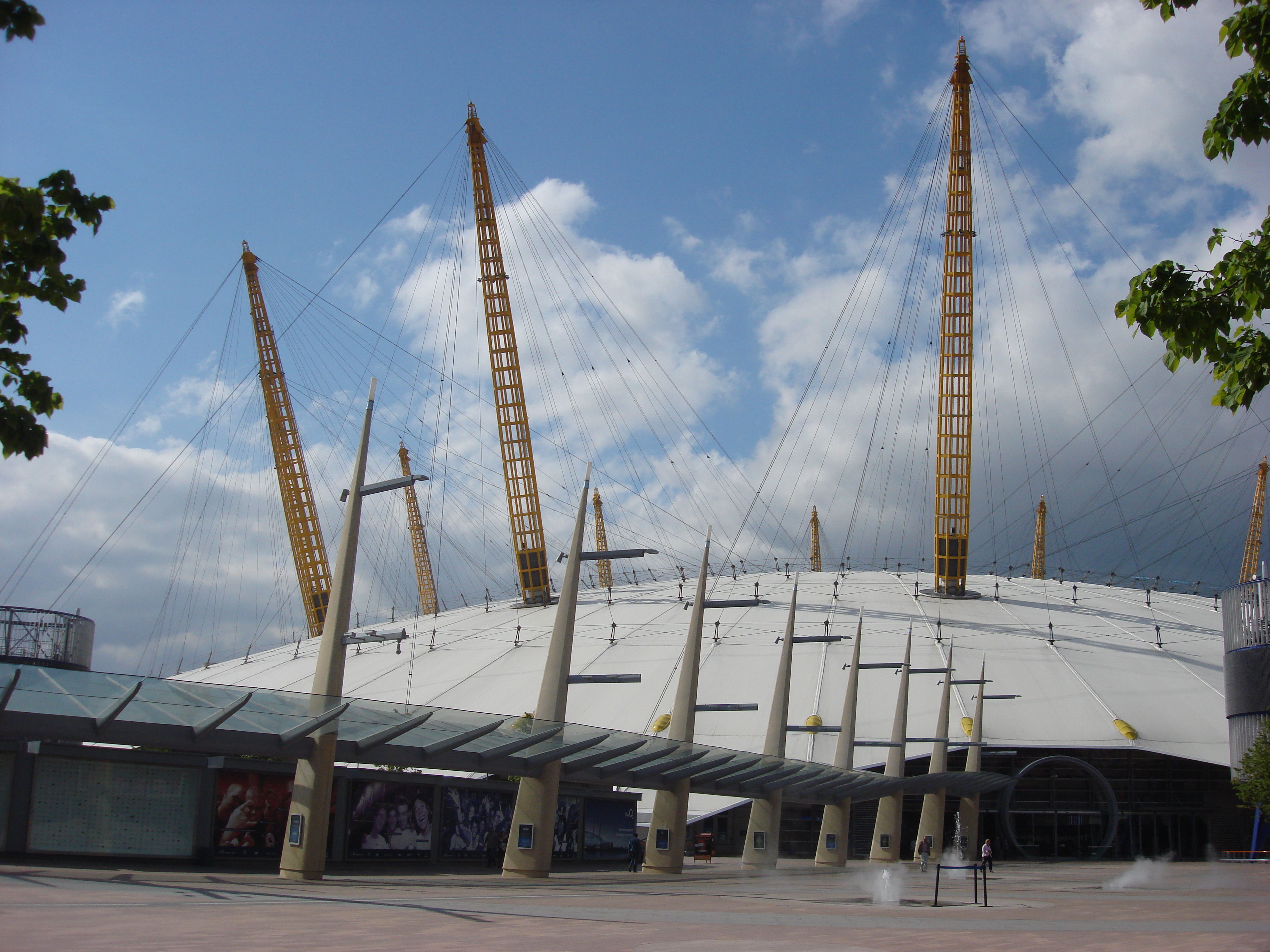 entrance to The O2 (formerly the Millennium Dome)